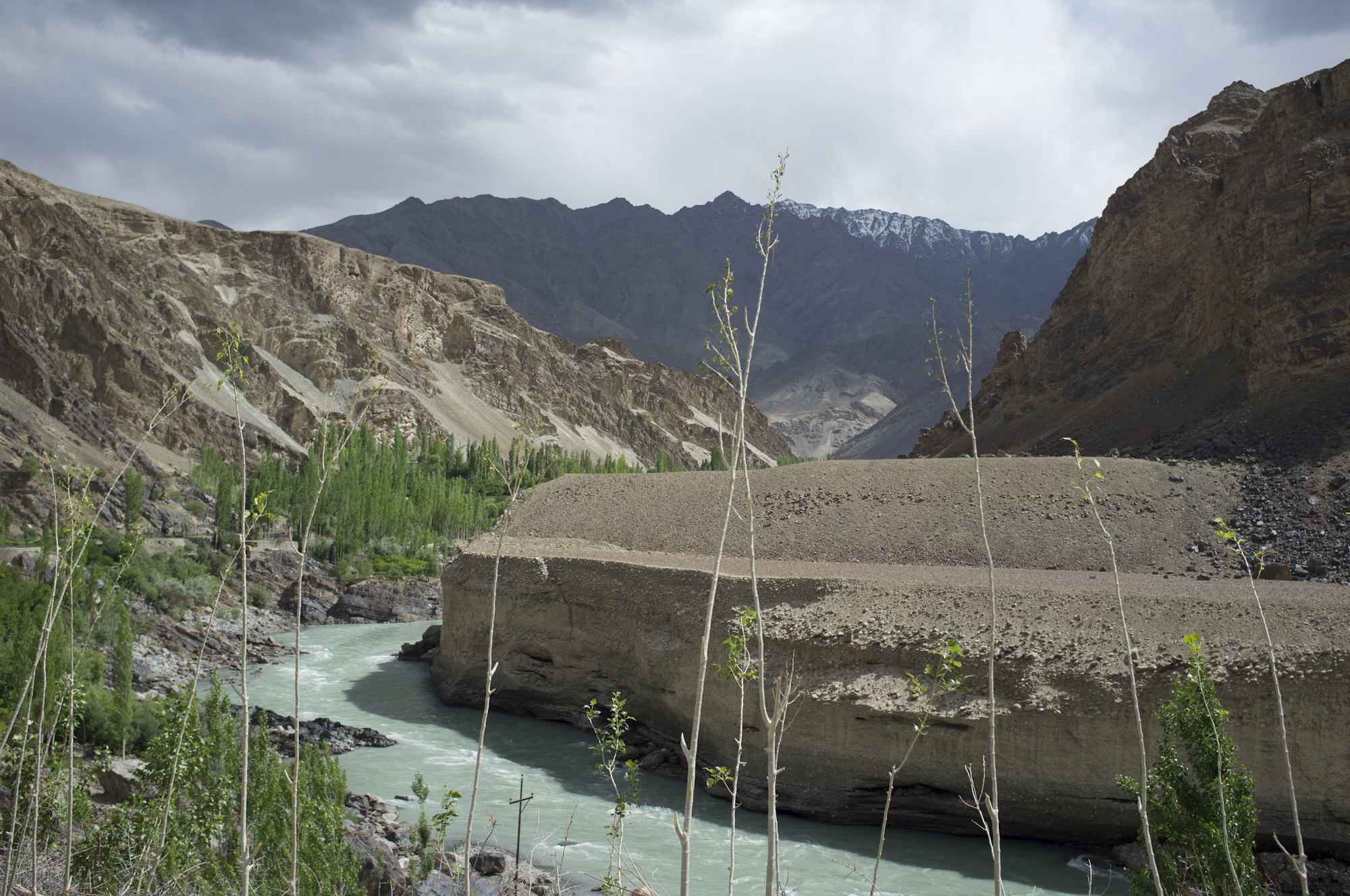 Indus river near Leh, India, 2014